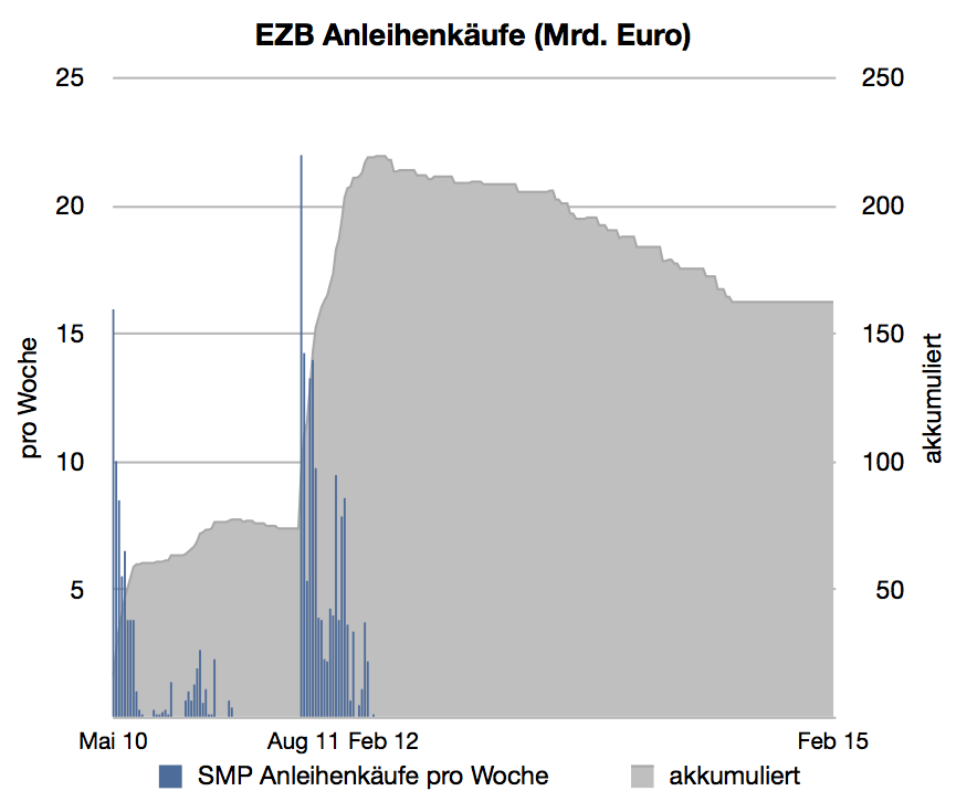 ECB Securities Markets Program (SMP) weekly bond purchases and total amount settled (May 2010 - February 2012)